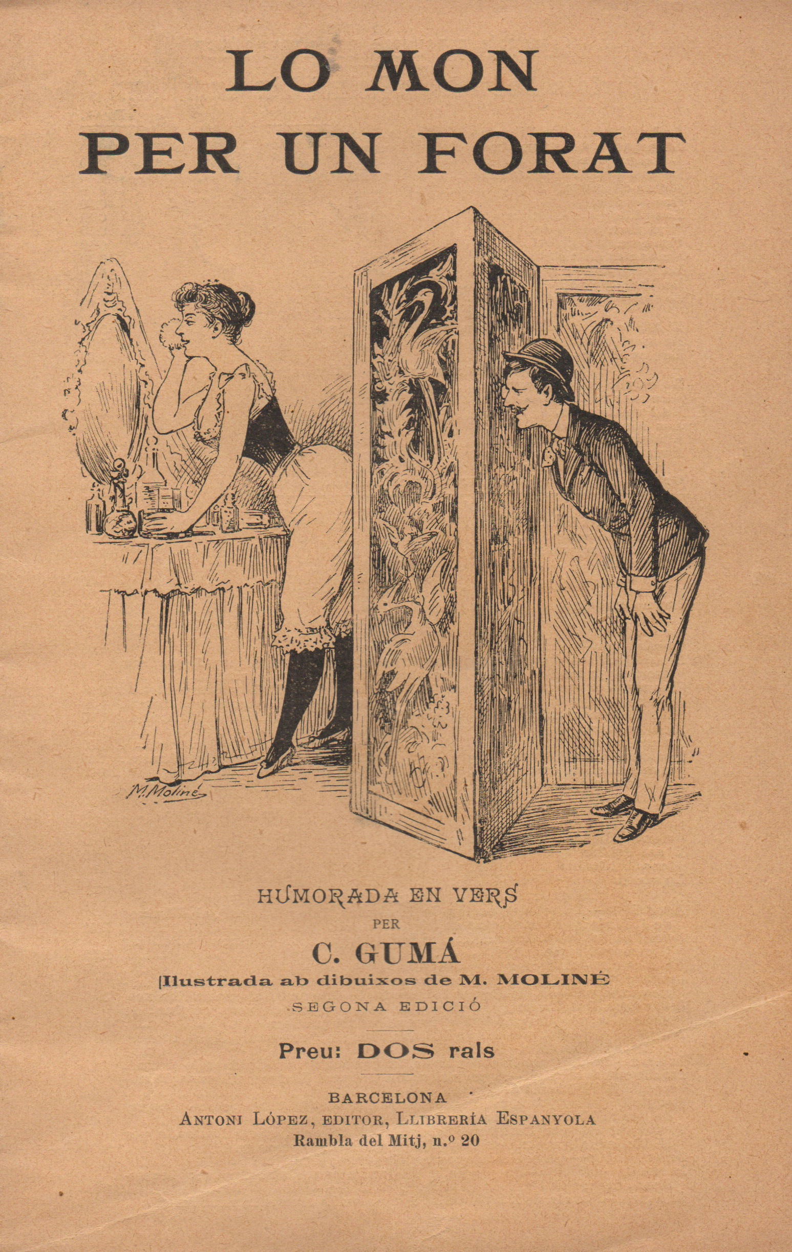 Cover of the book "Lo mon per un forat " (The world through a hole) written by C. Gumà (Juli Francesc Guibernau) with illustration of Manuel Moliné. Published in Barcelona in May 1895